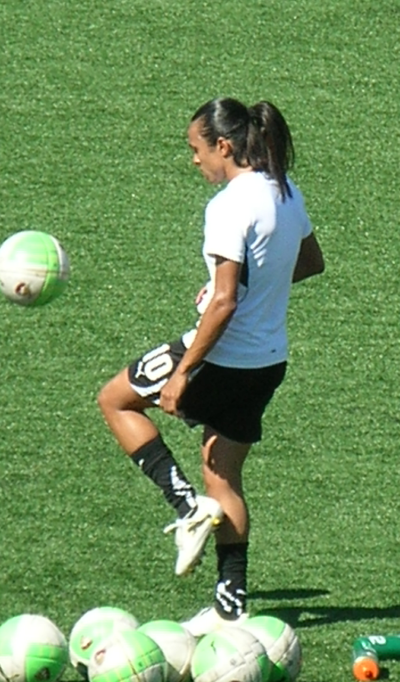 FC Gold Pride forward Marta warming up before the 2010 WPS Championship at Pioneer Stadium in Hayward against the Philadelphia Independence. Marta scored a goal, had two assists, and earned MVP honors in the the Gold Pride's 4-0 victory.